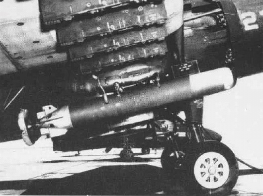 A Mk 43 acoustic torpedo under the wing of a U.S. Navy Douglas AD-4 Skyraider. The Mk 43 was manufactured from 1950 to 1960.